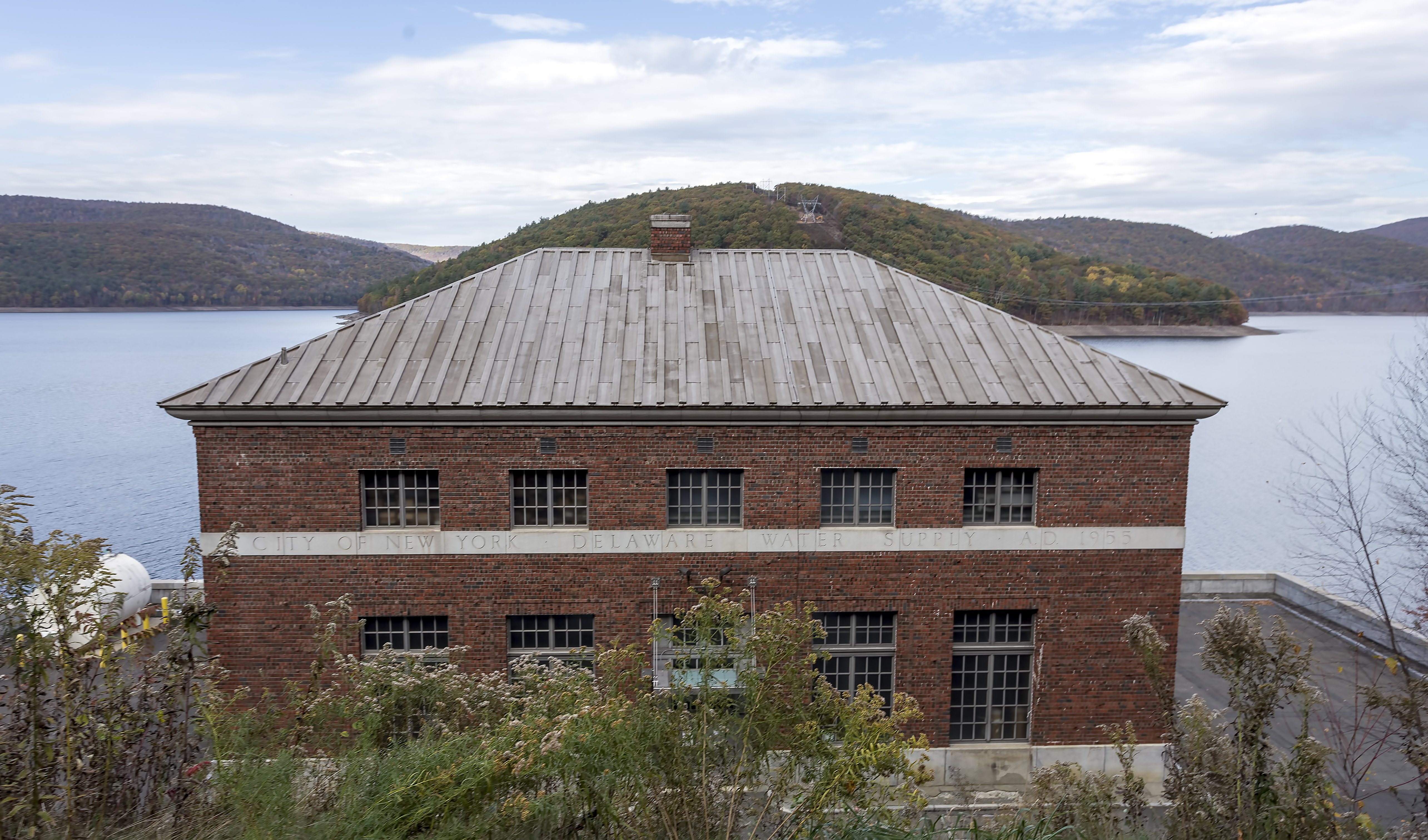 The entrance chamber building for the East Delaware Aqueduct, with Pepacton Reservoir in the background, New York, USA